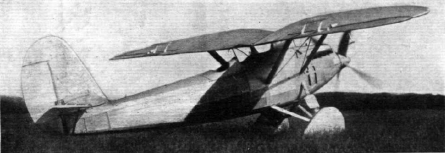 A German Dornier Do 10 fighter on the ground.